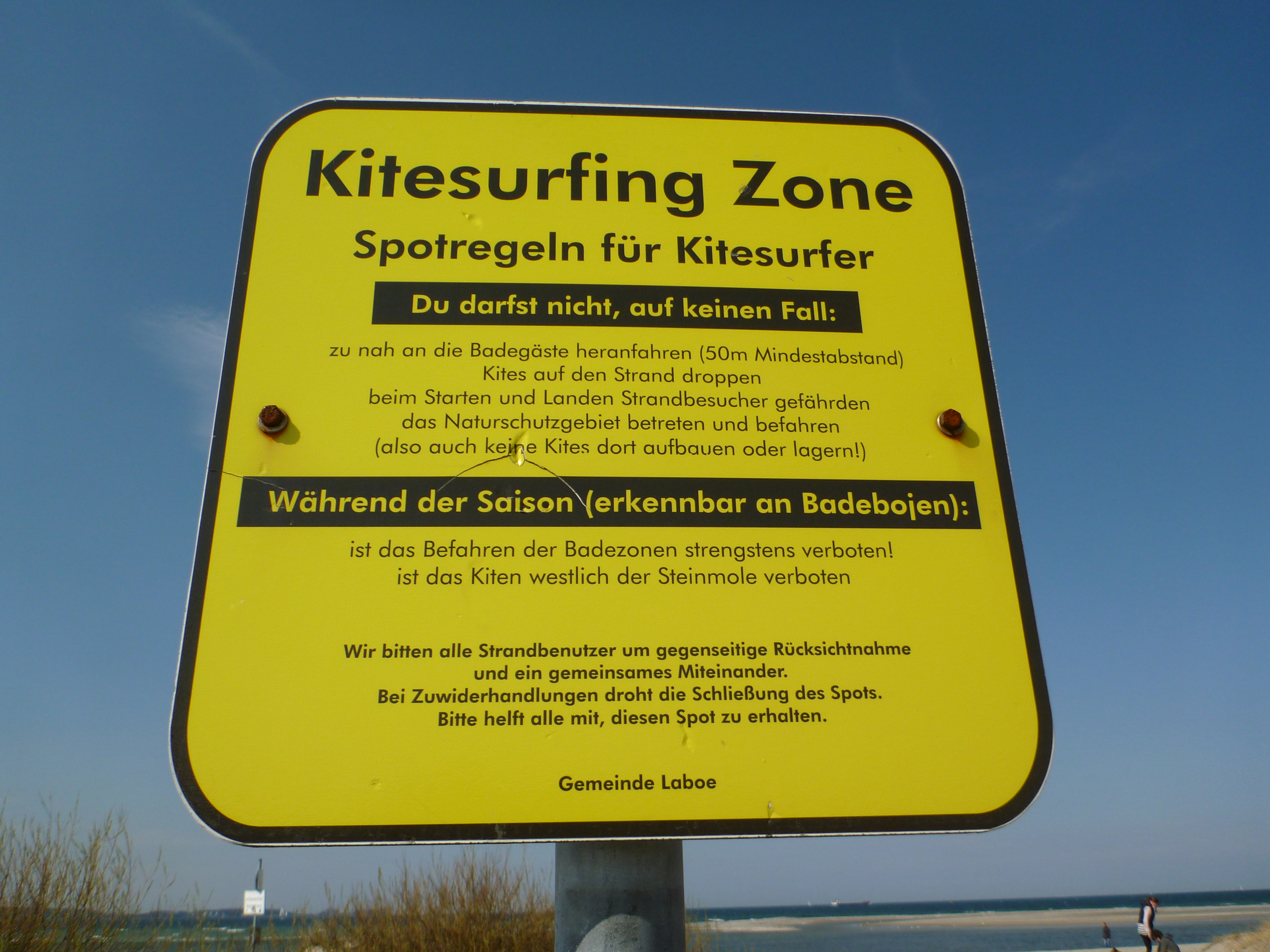 Information sign for kitesurfer in Laboe